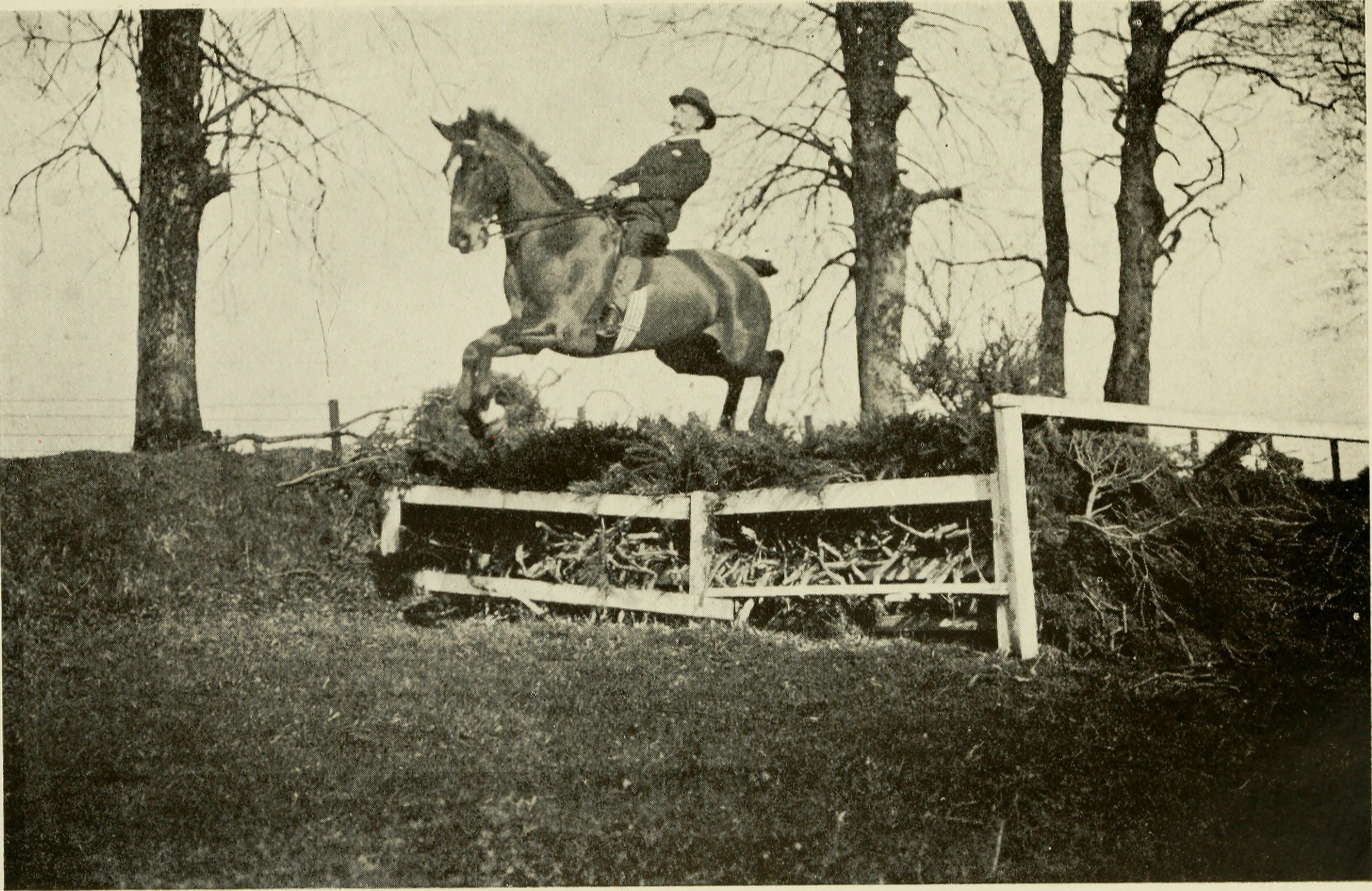 Title: The complete horseman Year: 1913 (1910s) Authors: Dixon, William Scarth Subjects: Horses; Horsemanship Publisher: London : Methuen Text Appearing Before Image: ' Text Appearing After Image: '